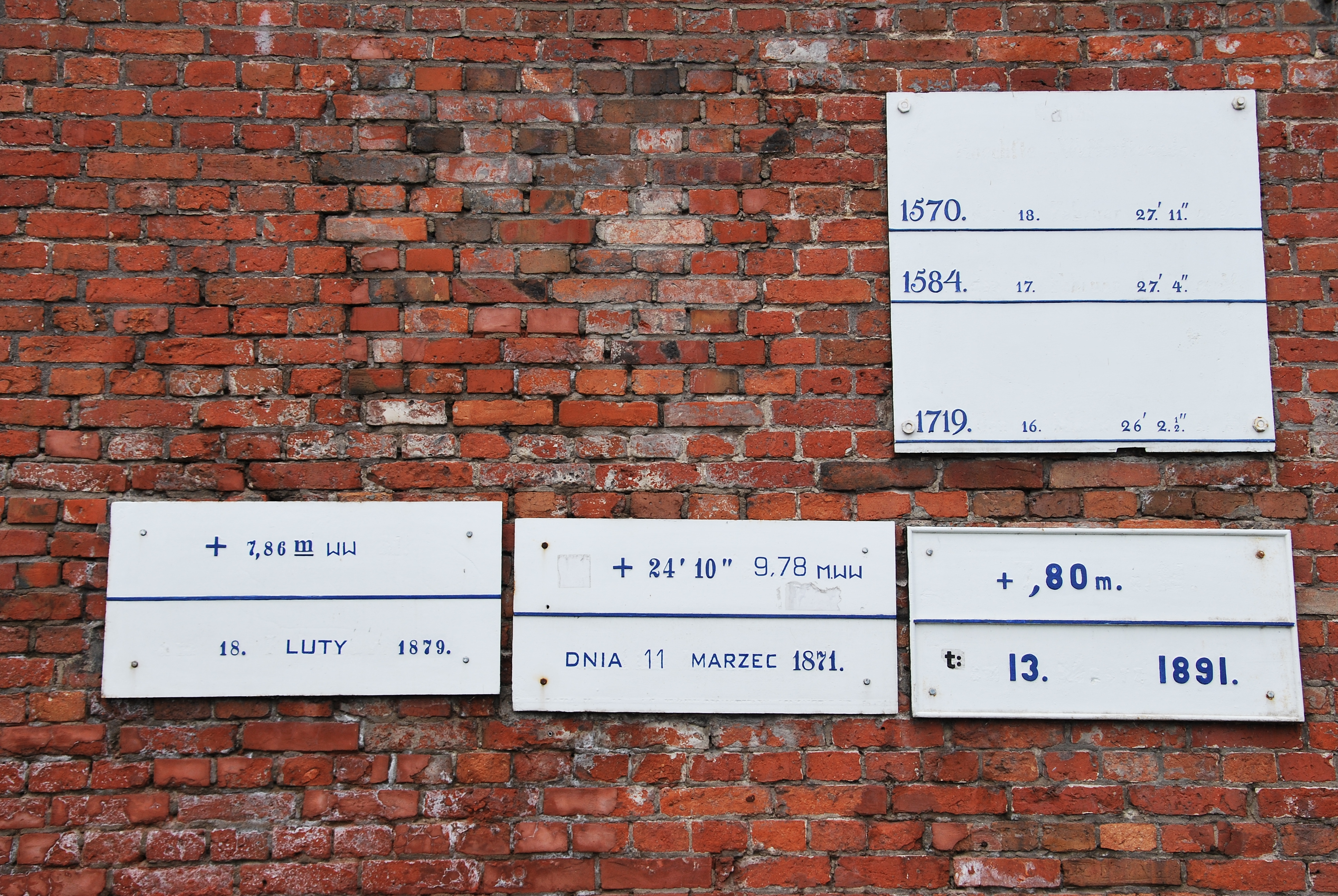 Old flood water signs, Toruń